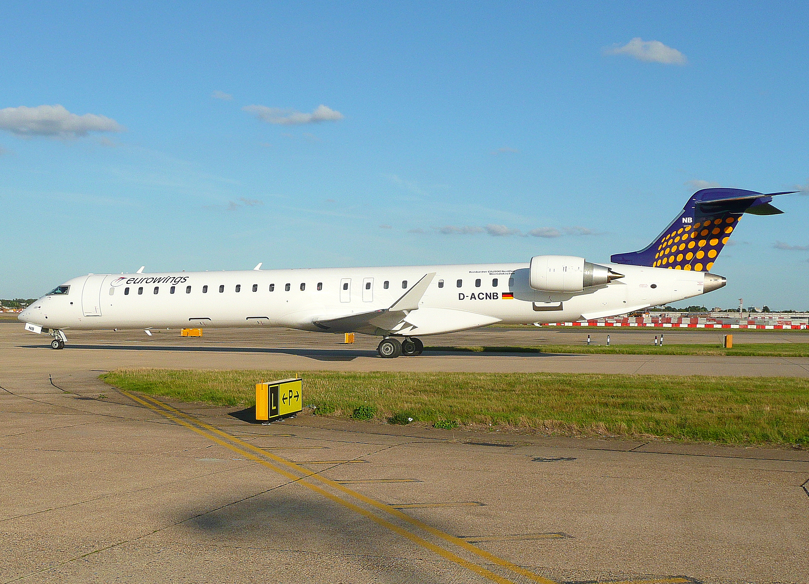 D-ACNB CR900 Eurowings passing std 209 on it's first visit.